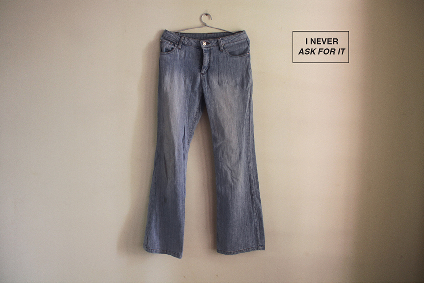 Blank Noise Action Hero Garment Testimonial : 'I Never Ask For It' / long term term mission to arrest blame. The initiative has been founded in India, by Blank Noise, and is being built in collaboration with women / allies in the country/ globally. For more information